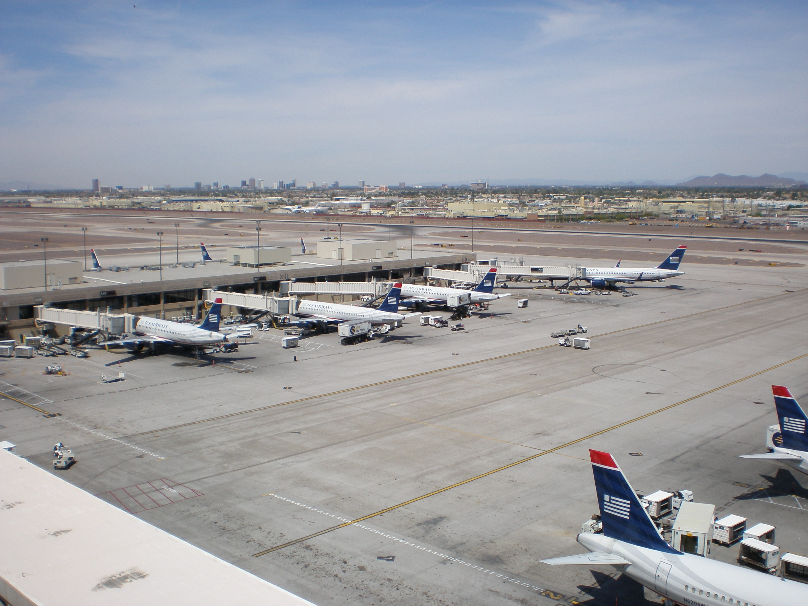 Several US Airways planes at Terminal 4.